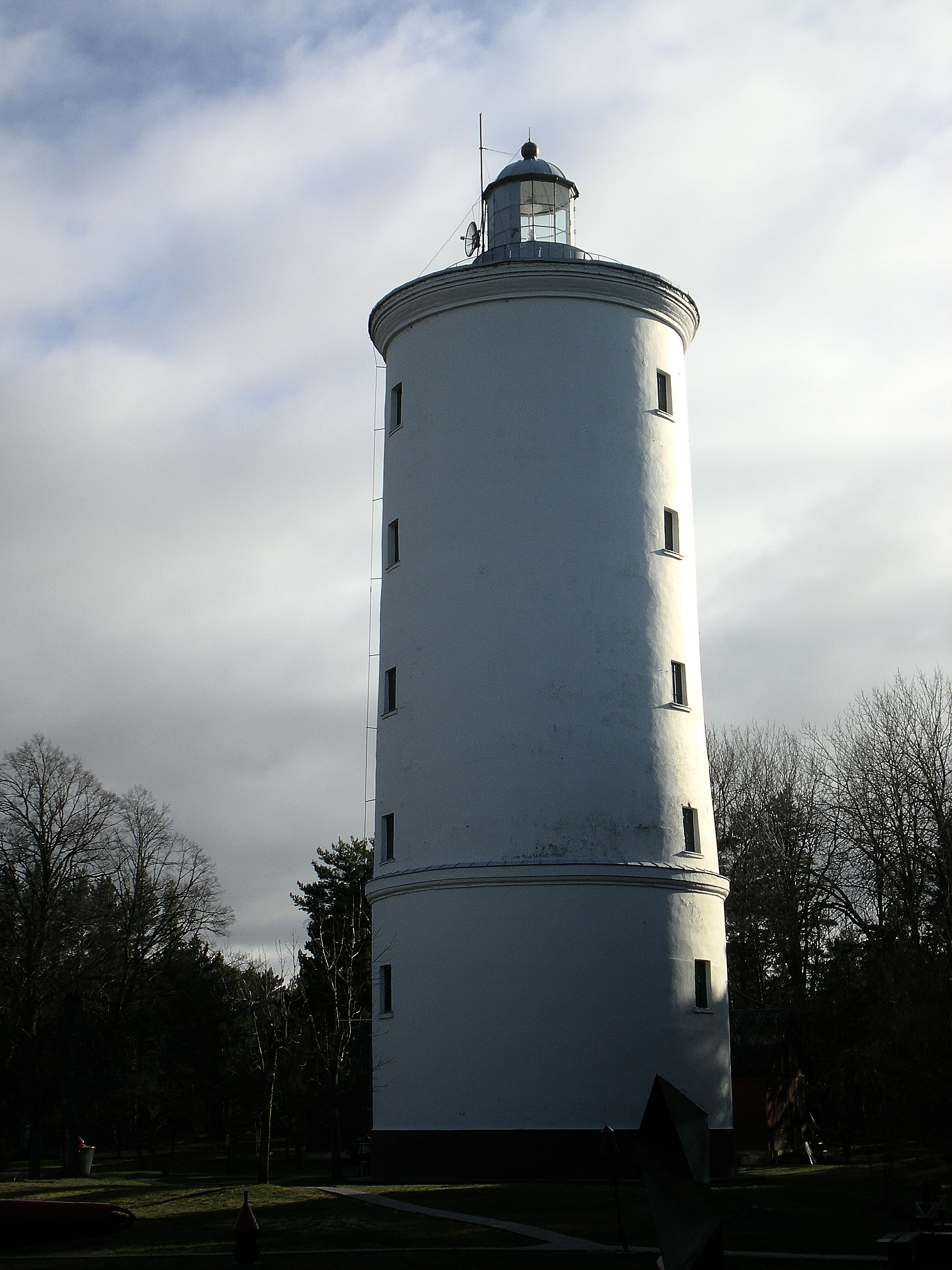 Ovisi lighthouse